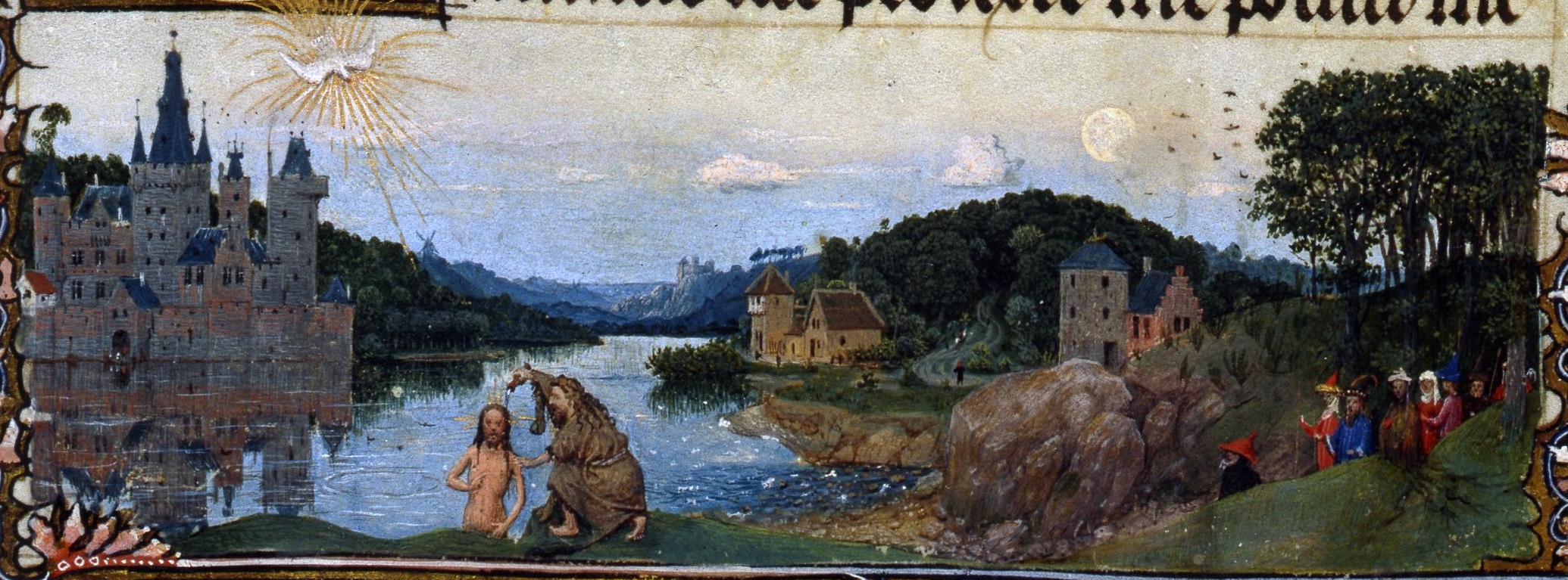 Baptism in the river Jordan.